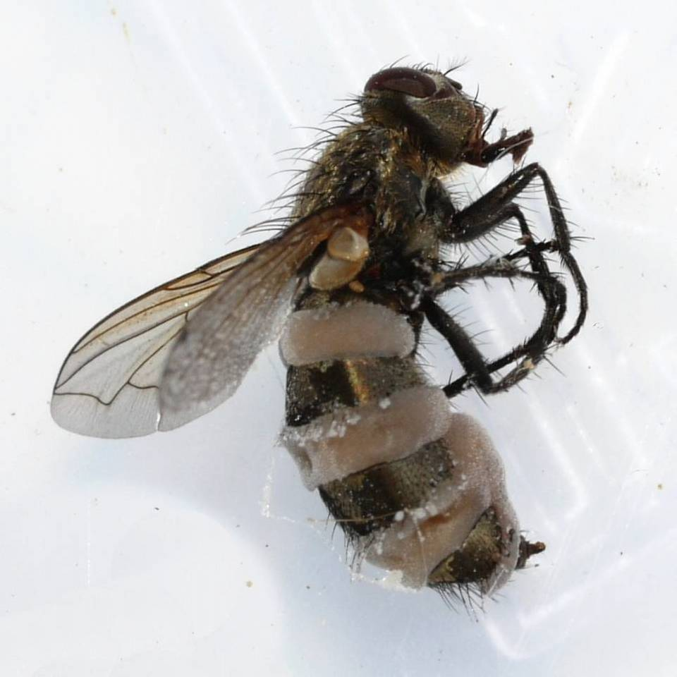 Entomophthora muscae (Cohn) Fresen. Image location: Dane Co., Wisconsin, USA Recognized by sight For more information about this, see the observation page at Mushroom Observer.